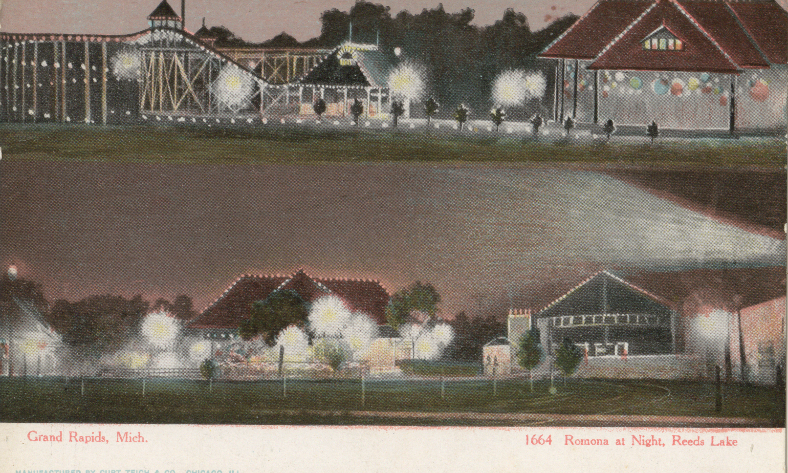 Ramona at Night, Reeds Lake - No 1664 - Manufactured by Curt Trich & Co., Chicago Ill. - Roller coaster figure 8 - Ramona Theatre Pavilion - Japanese Days - circa 1908